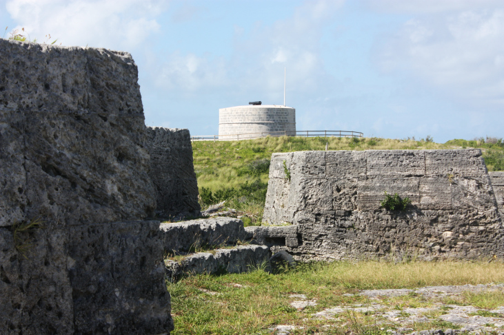 The 1822 Martello tower, seen from Ferry Island Fort (built in the 1790s), at Ferry Reach, on St. George's Island, in Bermuda 2011.